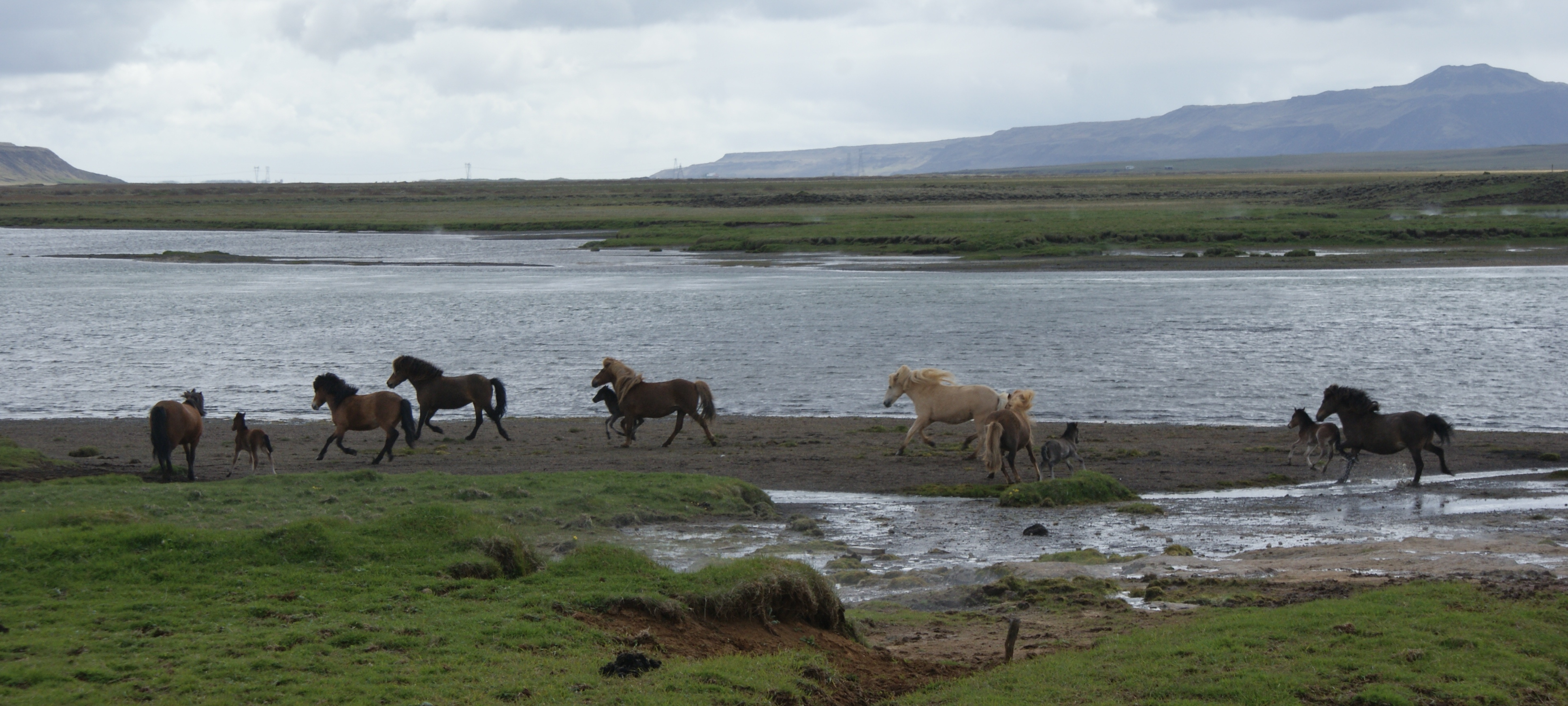 Icelandic horses. Something spooked the horses.